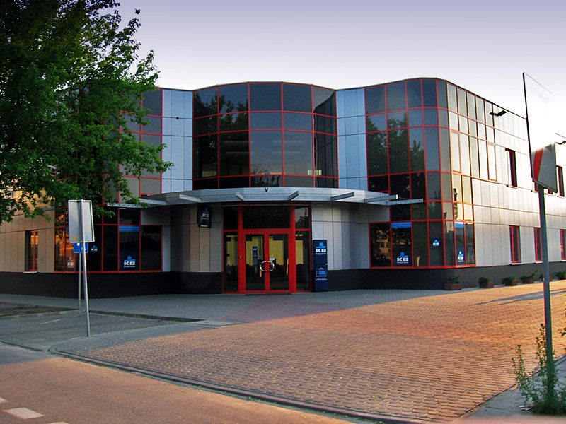 City of Ostroleka (Poland), building of Kredyt Bank.